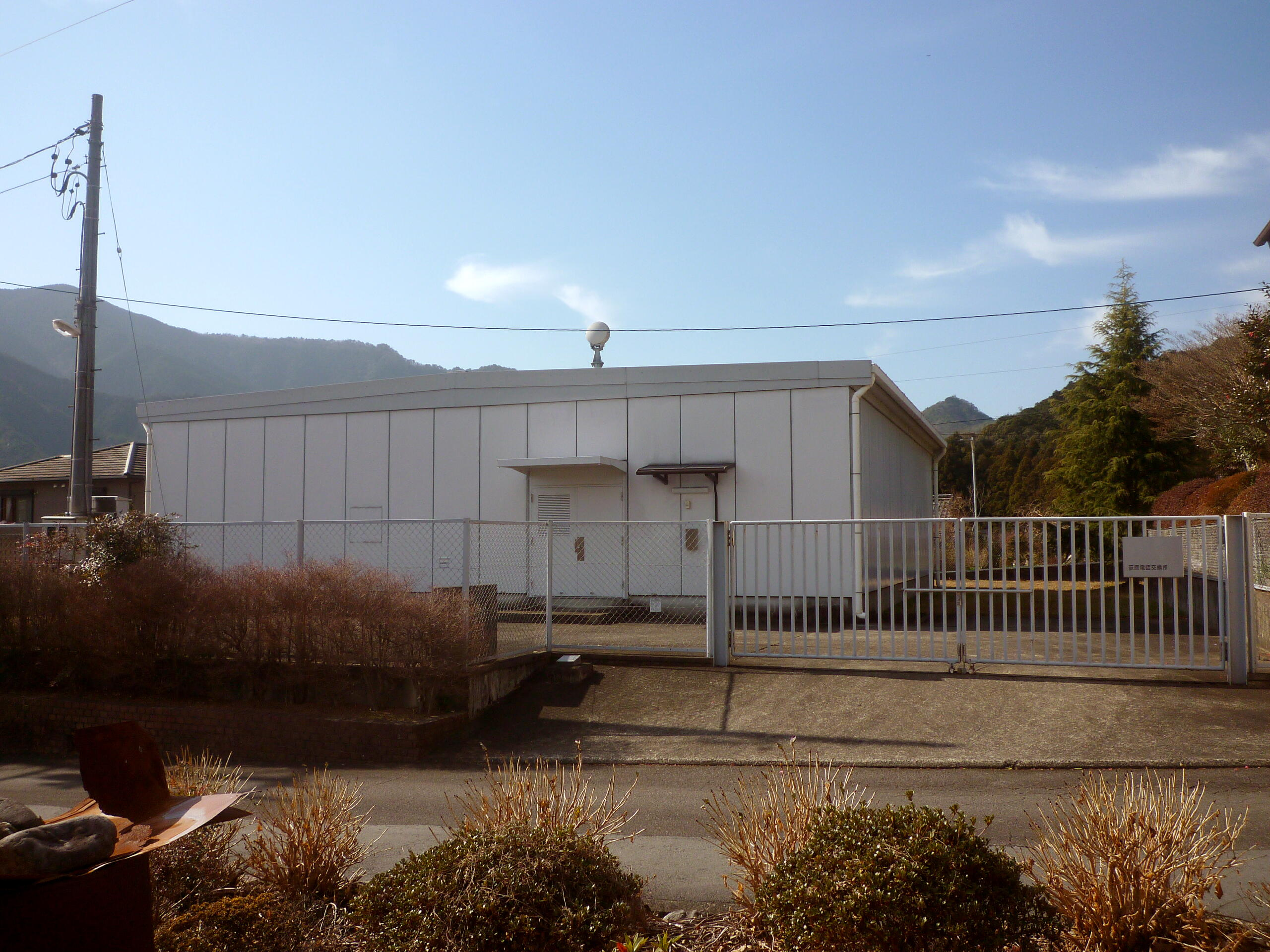 The "NTT Ogihara Telephone Exchange Building" in Ema, Ōdai Town, Taki District, Mie Prefecture, Japan.